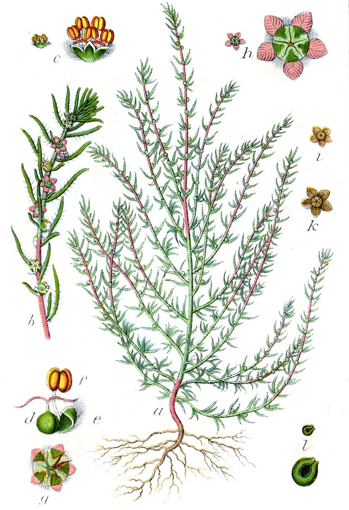 FloraWeb.de: Sand-Radmelde, Bassia laniflora (S. G. Gmel.) A. J. Scott, syn. Kochia arenaria (Maerkl.) Roth ; Original Description: Sand-Kochie, Kochia arenaria